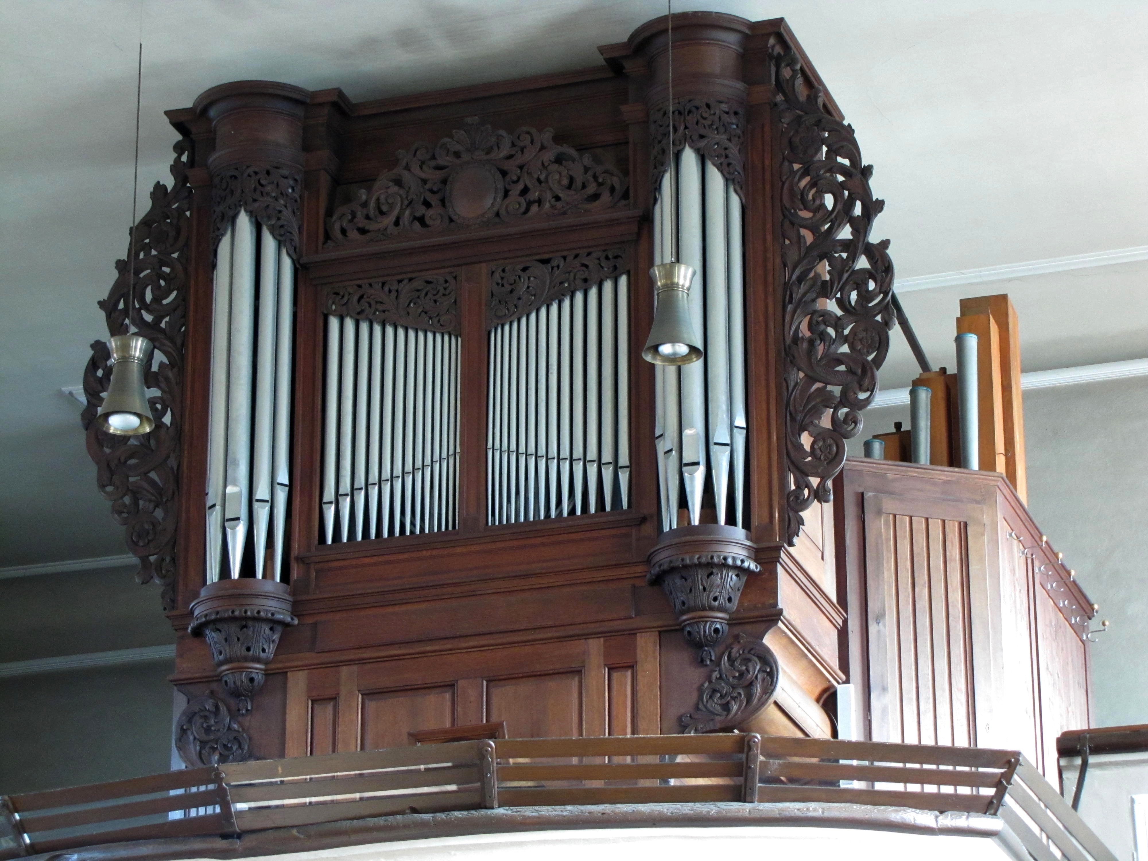 Alsace, Bas-Rhin, Ottrott, Église Saints-Simon-et-Jude (IA00075575). Orgue Andreas Silbermann (1721): This object is classé Monument Historique in the base Palissy, database of the French furniture patrimony of the French ministry of culture, under the references PM67001069, IM67001079 and buffet PM67000779 buffet.